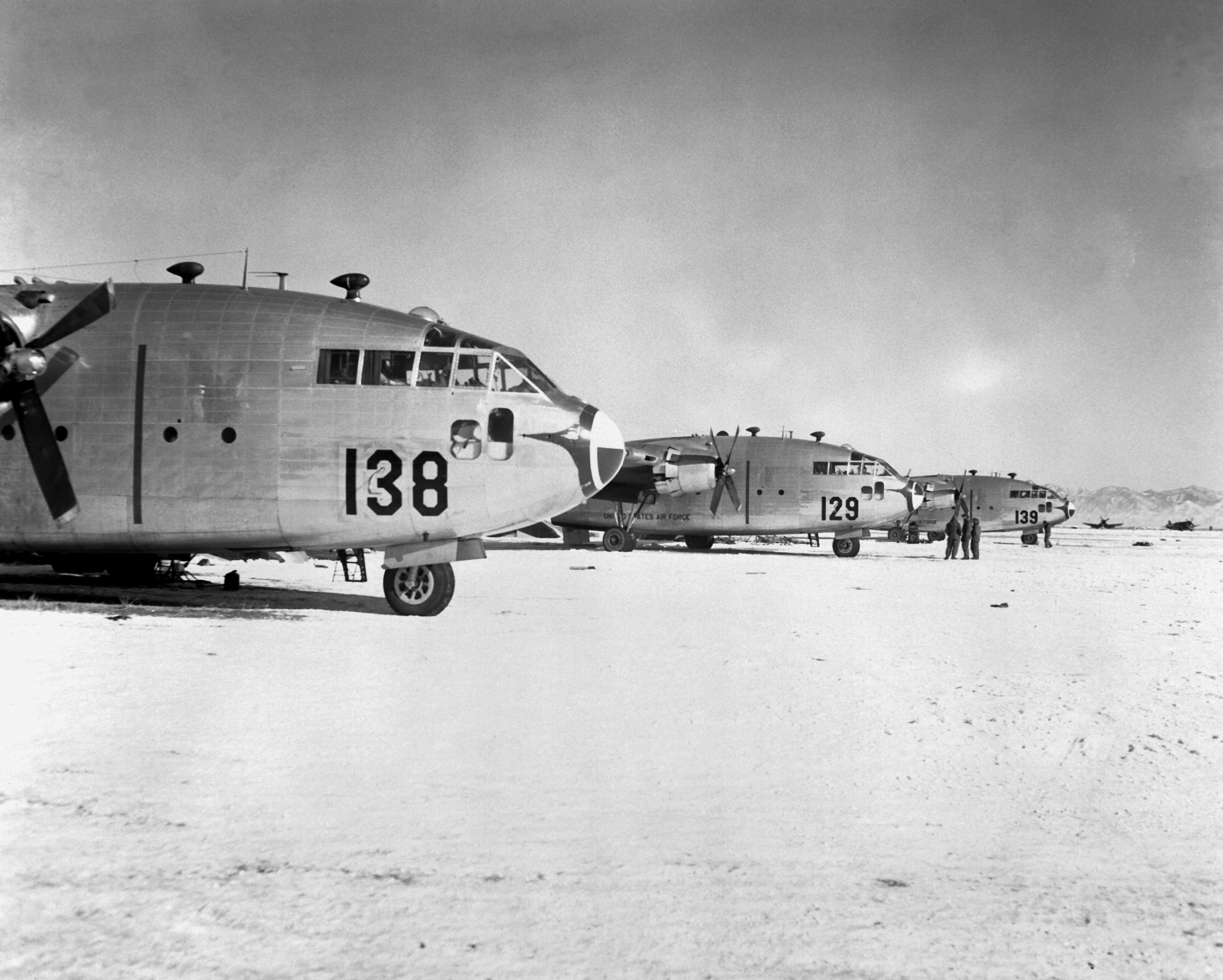 U.S. Air Force Fairchild C-119 Flying Boxcar airplanes line the airfield at Yonpo, Korea as they are loaded with air drop cargo for the U.S. Marine Corps 1st Division in the Chosin Reservoir area, on 1 December 1950.